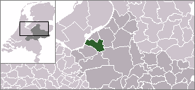 Locator map of Dutch municipalities in Gelderland (LocatieErmelo.png)